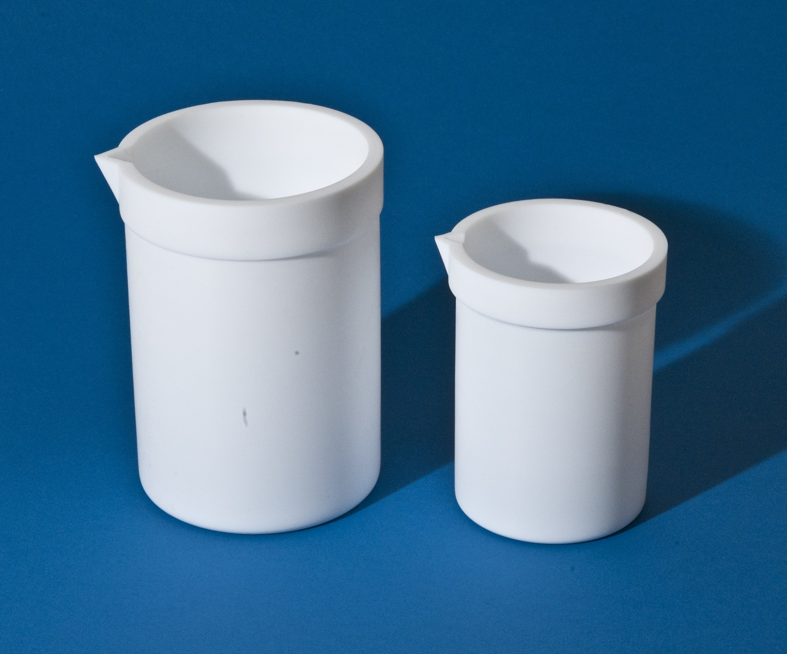 Teflon jar